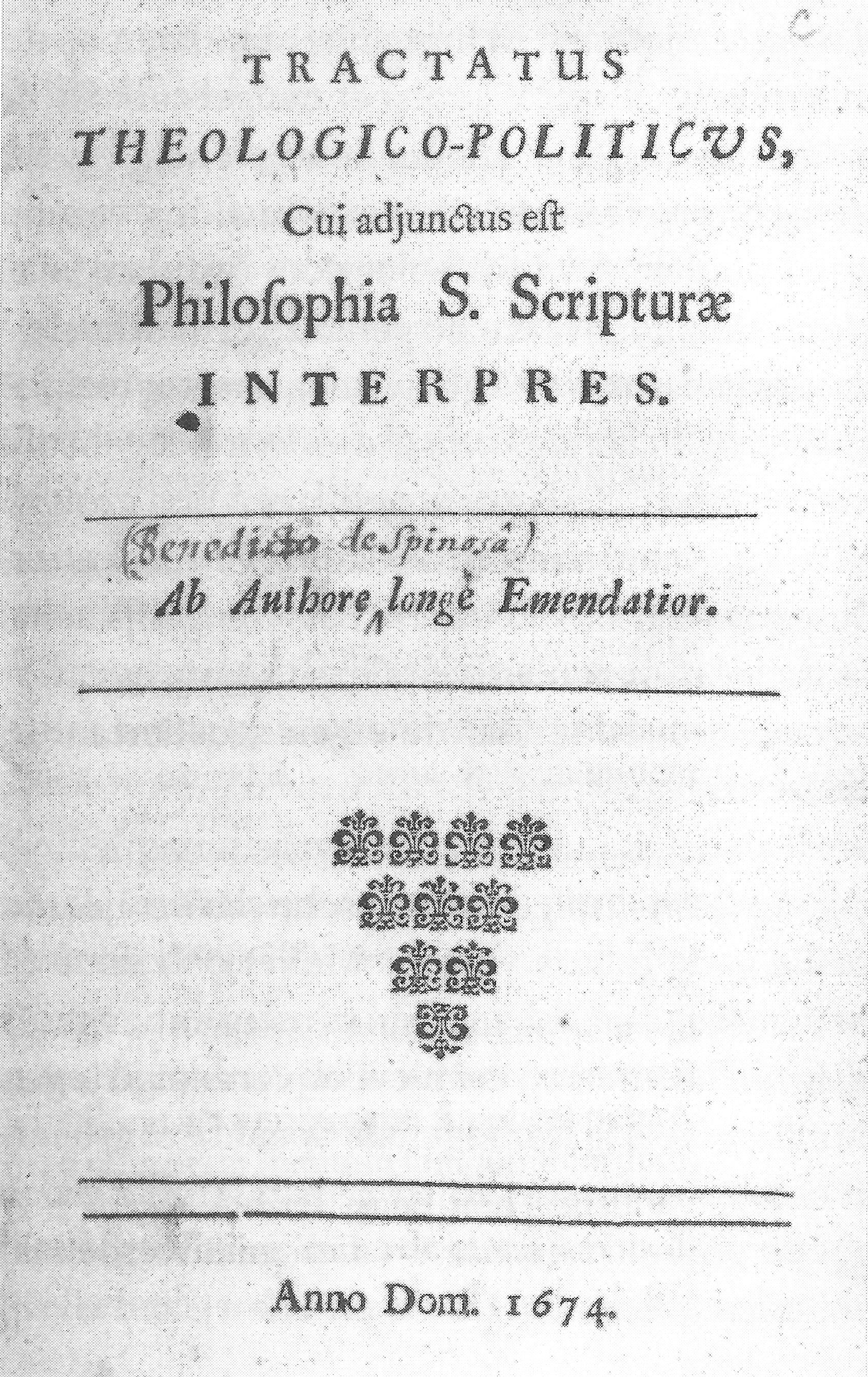 Title page. Tractatus theologico-politicus, cui adjunctus est Philosophia S. Scripturae interpres. Ab Authore Lunge Emendiator. Anno Dom. 1674. Title page of a convolute with L. Meyer: Philosophia S. Scripturae interpres. Added in manuscript: "Benedicto de Spinosâ".